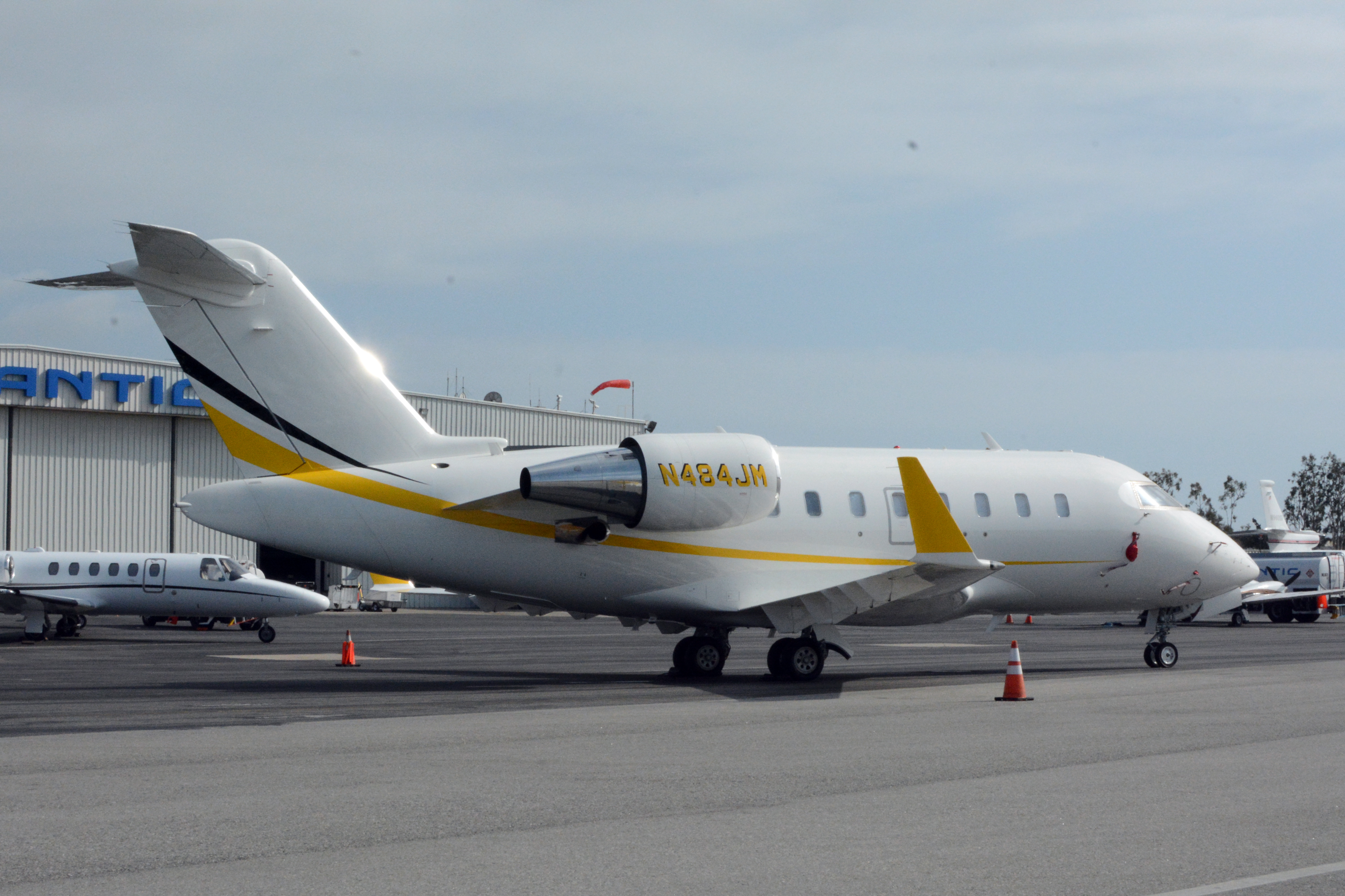 2010 Bombardier Challenger 600 2B16 Photo D Ramey Logan